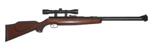 Weihrauch HW77 mark 1 Air Rifle